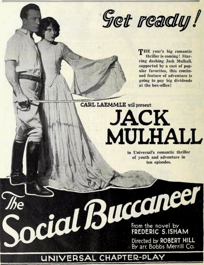 Ad for the American film serial The Social Buccaneer (1923) with Jack Mulhall and Margaret Livingston, on page 34 of the November 25, 1922 Universal Weekly.